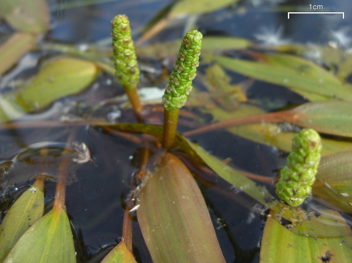 Probably Potamogeton gramineus in Edgewood Blue, Wells Gray Park, BC, Canada